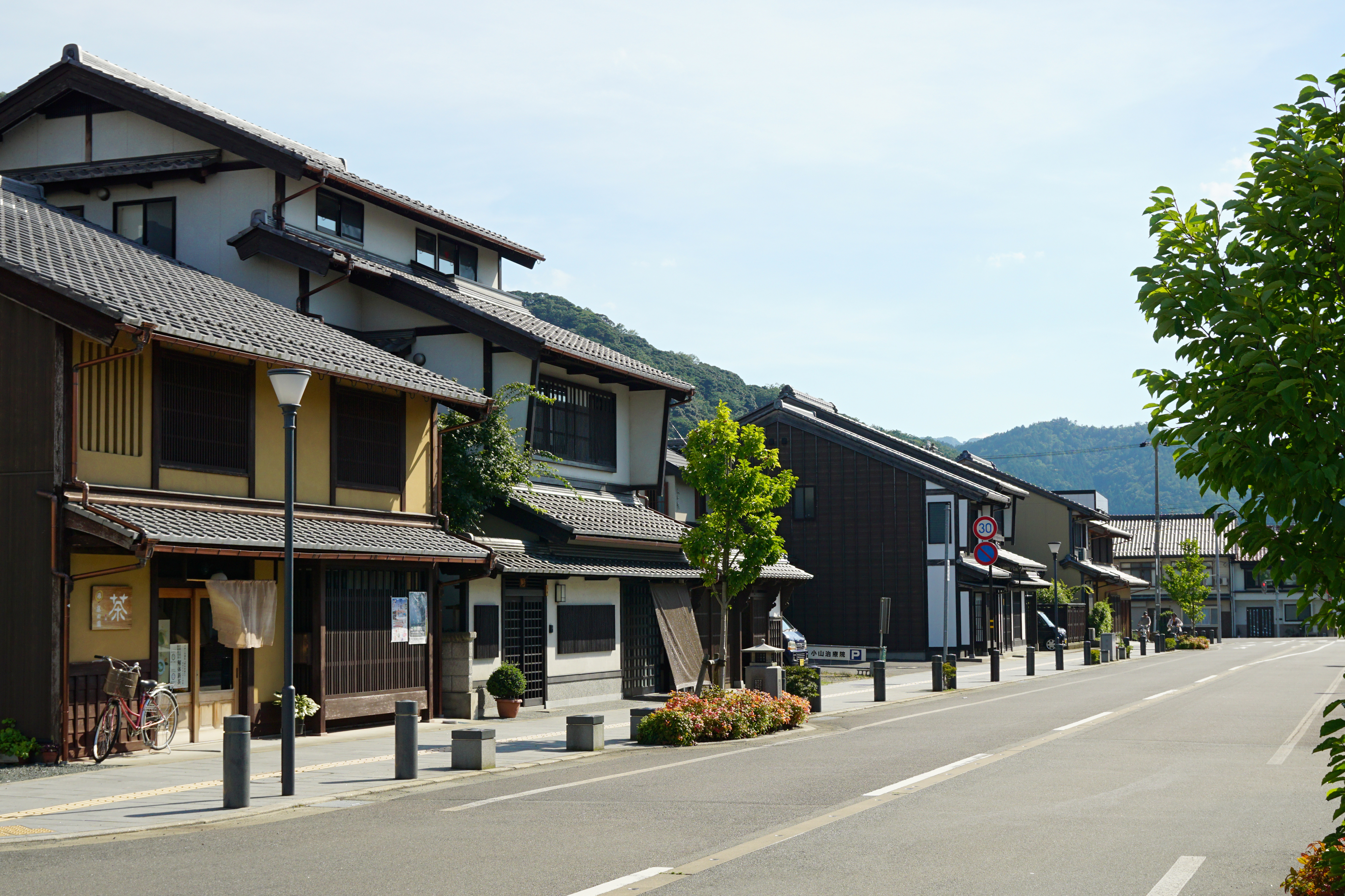 Obama-Nishigumi designated as Important Preservation Districts for Groups of Historic Buildings in Japan. It is located in Obama, Fukui prefecture, Japan.